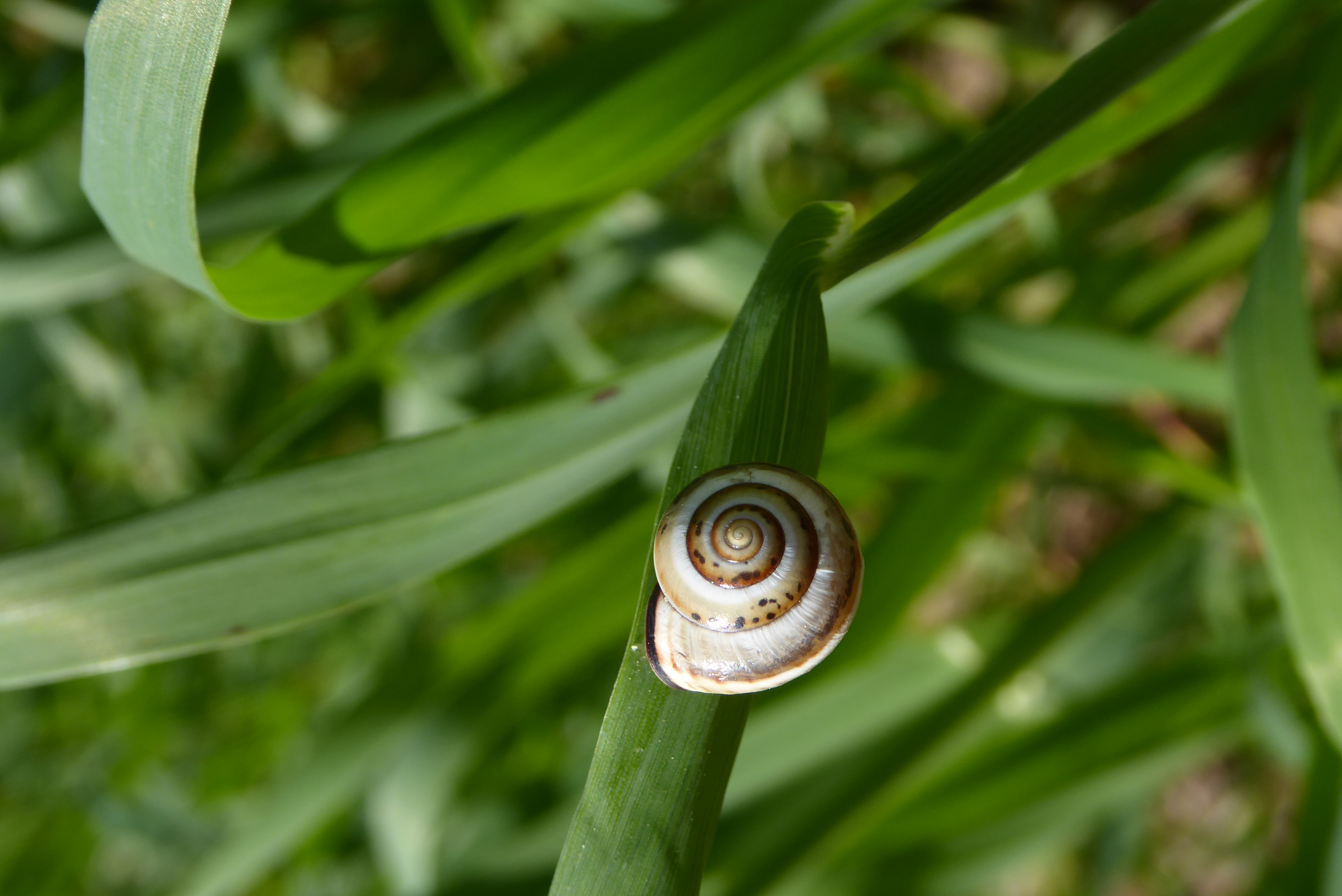 Savion blossoms